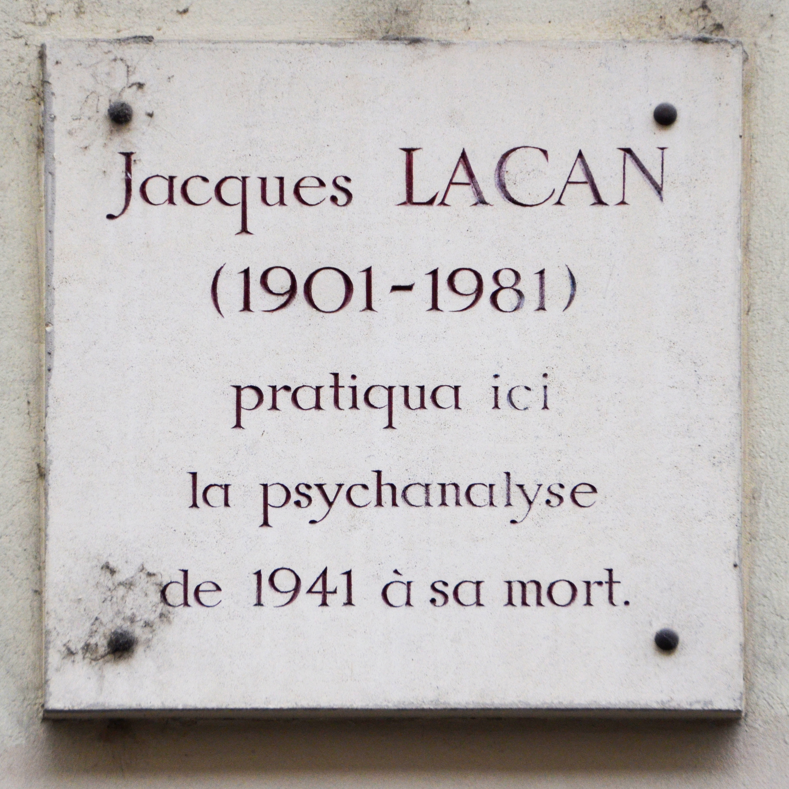 Read more about him here